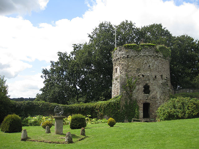 Garrison Tower and sundial, Usk Castle One being considerably older than the other! The tower is considered to be a military masterpiece. Constructed around 1209 in the French style by William, Earl of Pembroke, it formed part of the curtain wall and dominated the Usk valley. Round walls enabled defenders to fire in all directions, making the tower less vulnerable to damage from attack. The castle is privately owned.